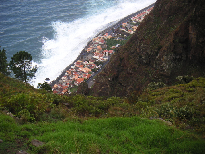 There's a new luxury hotel called Jardim Atlantico right at the edge of the sea cliff near Prazeres. A little trail leads down into the canyon and to the beach front village of Paul do Mar below.